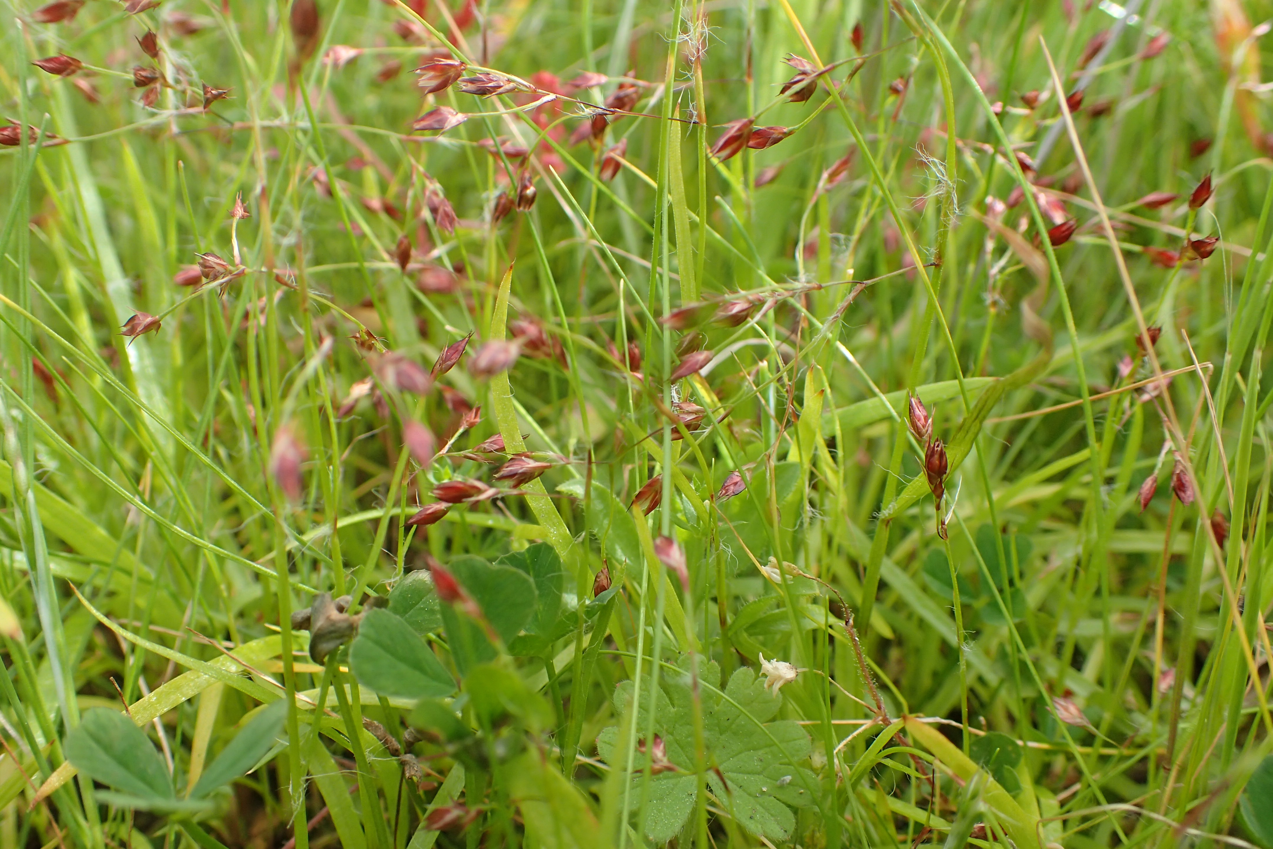 Luzula elegans in Los Carrizales, Tenerife